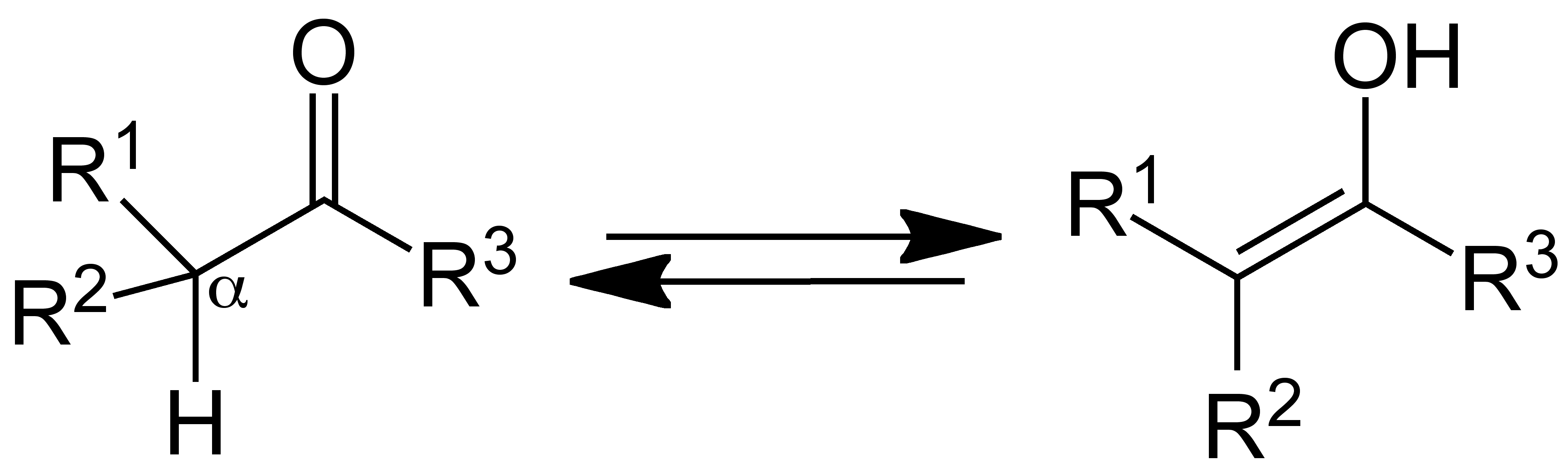 Keto-Enol-Tautomerism